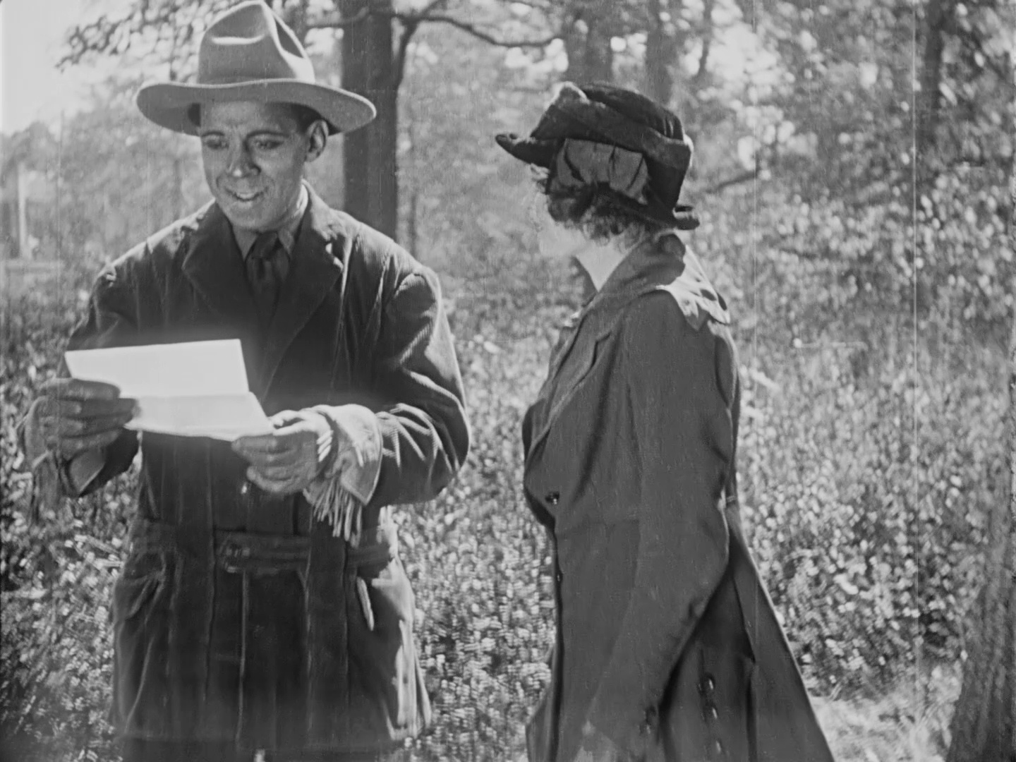 The Symbol of the Unconquered (aka The Wilderness Trail) is a 1920 silent "race film" drama produced, written and directed by Oscar Micheaux. This is a single scene from the film, as seen in a Youtube jazz video. The jazz part is clearly under copyright, but this image from the film is public domain as it was published in 1920. This is a low quality image, and a higher quality image should replace it if one can be found.